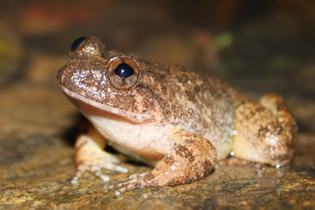 Lesser Spiny Frog, (Paa exilispinosa) Taken in Sai Kung East country park.